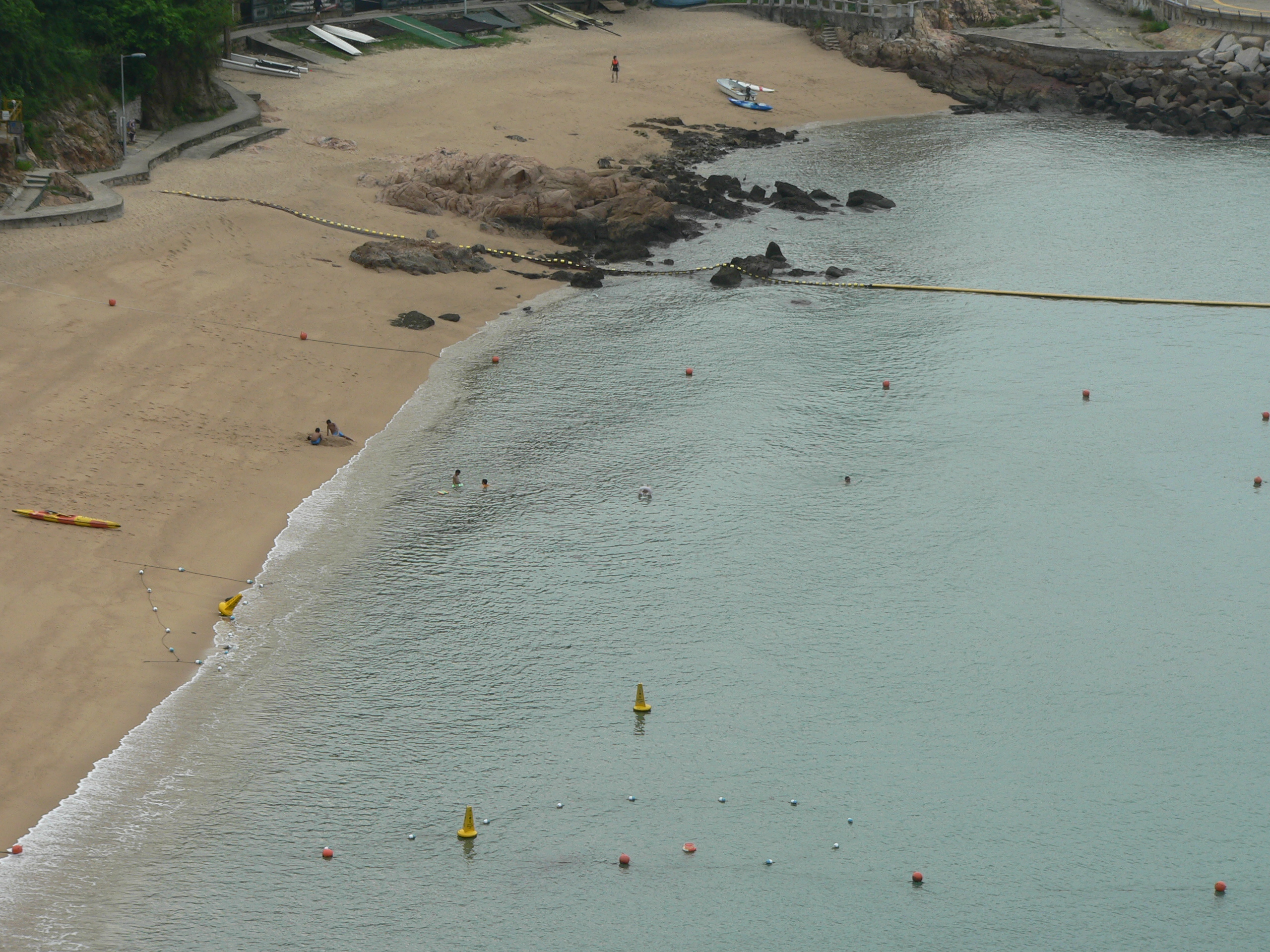 Cheung chau beach, Hong Kong.